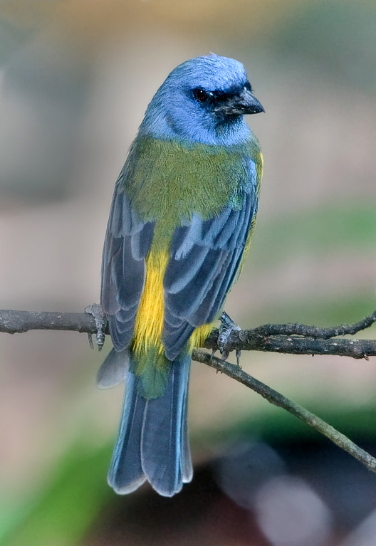 Blue-and-yellow Tanager